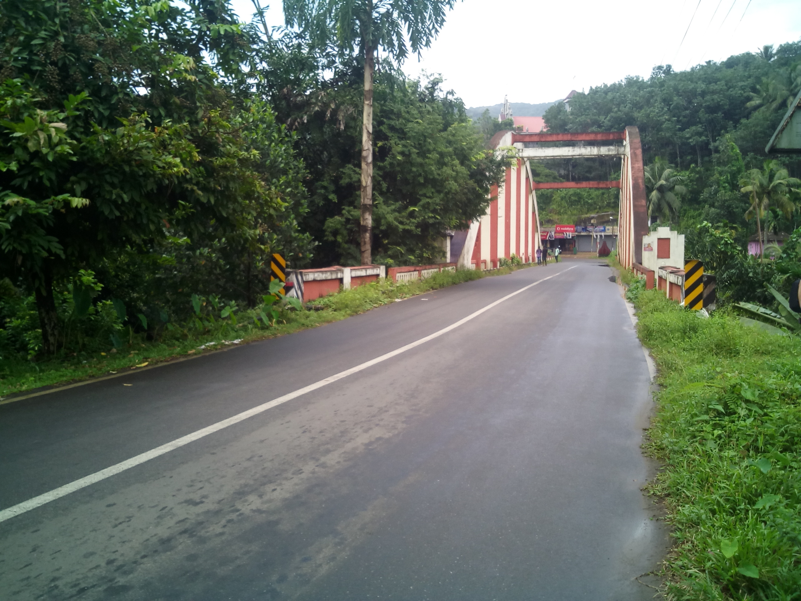 suspension bridge perinad kerala